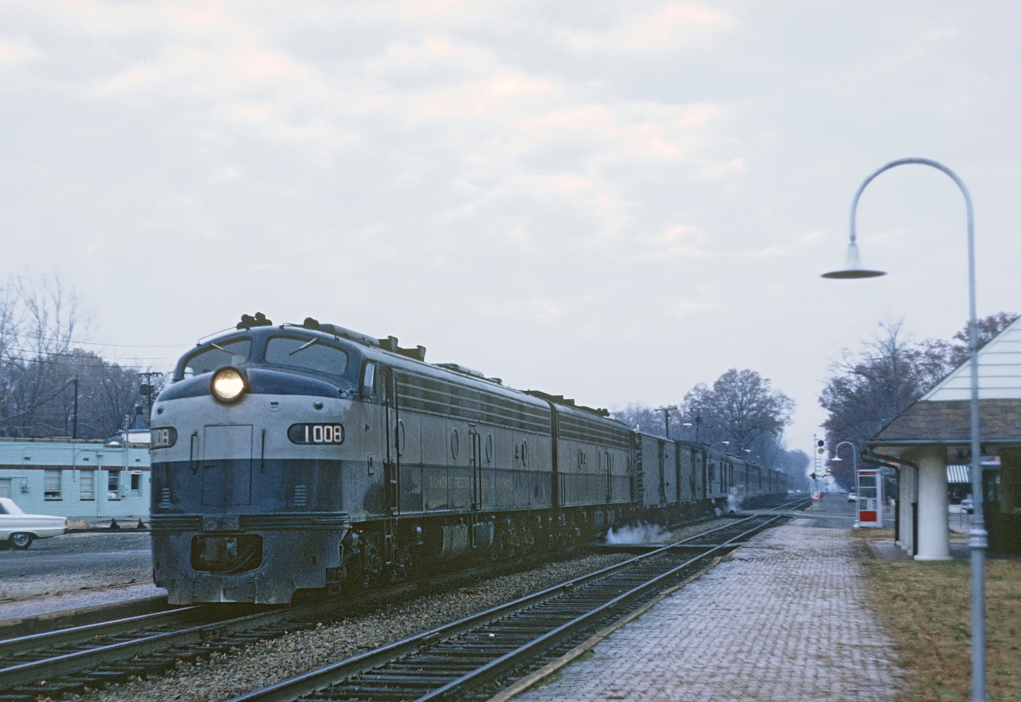 Richmond, Fredericksburg, and Potomac Railroad A Roger Puta Photograph